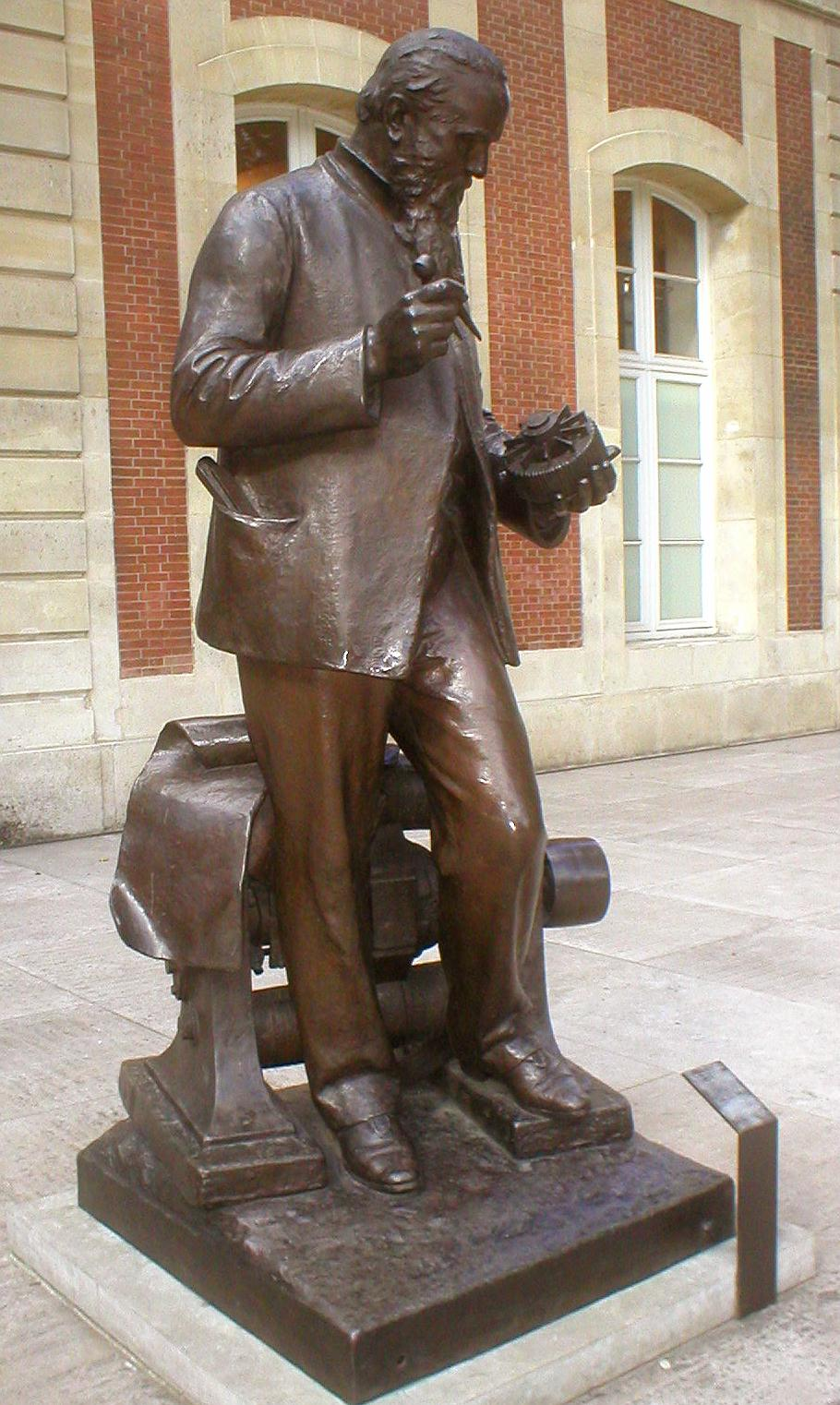 Bronze statue of Zénobe Gramme, Belgian engineer, by Mathurin Moreau (French, 1822–1912). H. 2.2 m (7 ft. 2 ½ in.). Main courtyard of the Musée des Arts et Métiers in Paris.